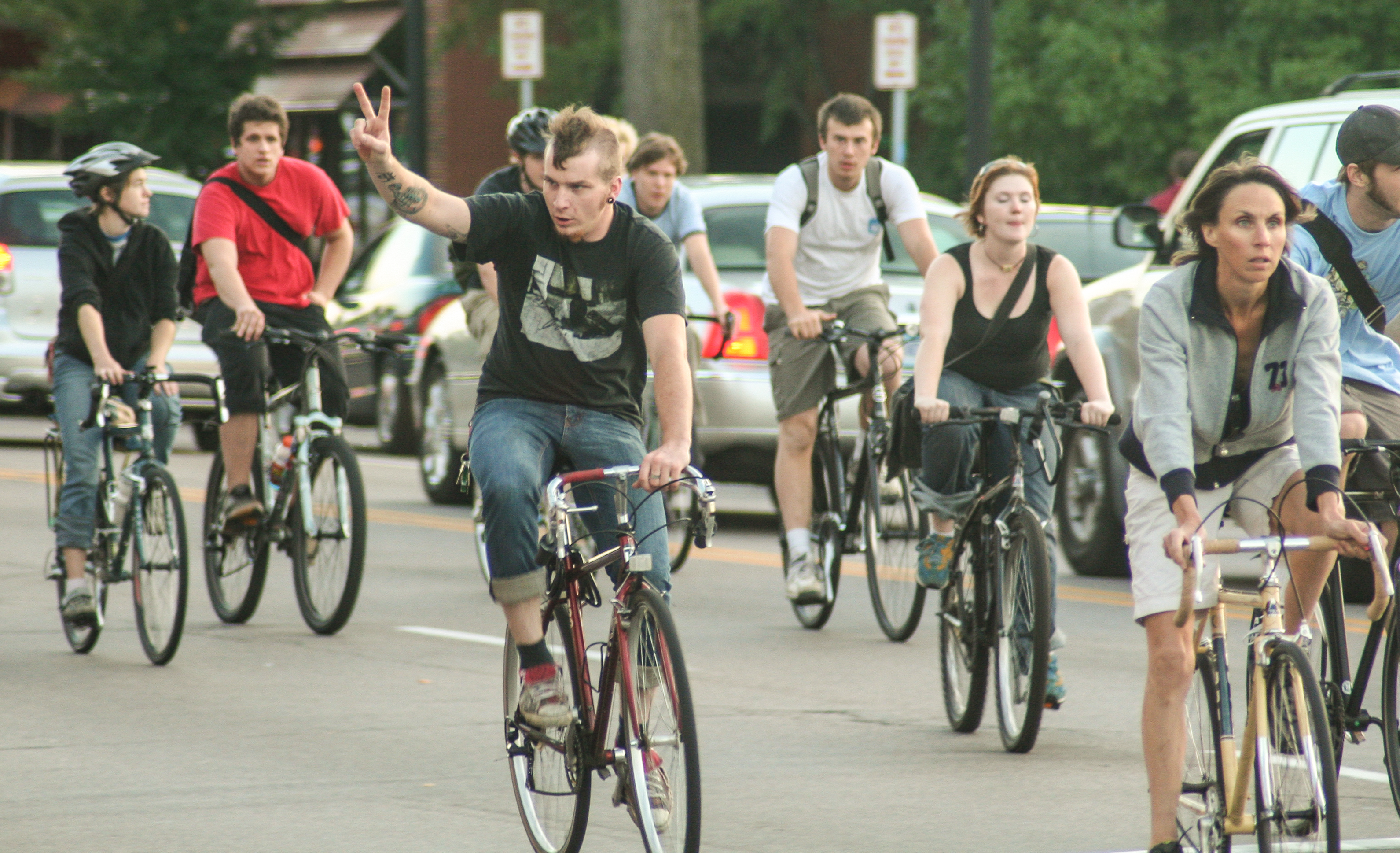 Critical Mass Minneapolis